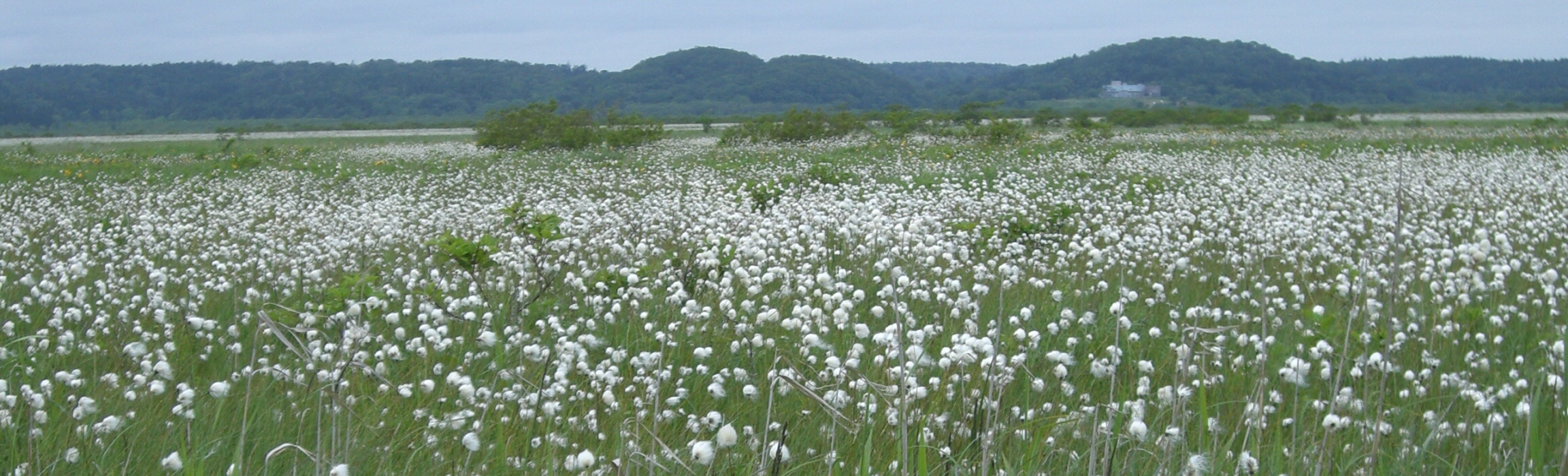 Eriophorum vaginatum in Kiritappu wetland (Japan National Trust) in Hokkaido, Japan